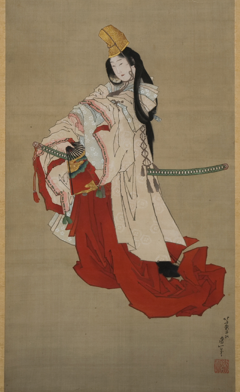 Shizuka, the most famous shirabyoshi, who was the lover of Yoshitsune. Painting, colored ink on silk, by Katsushika Hokusai, c. 1825